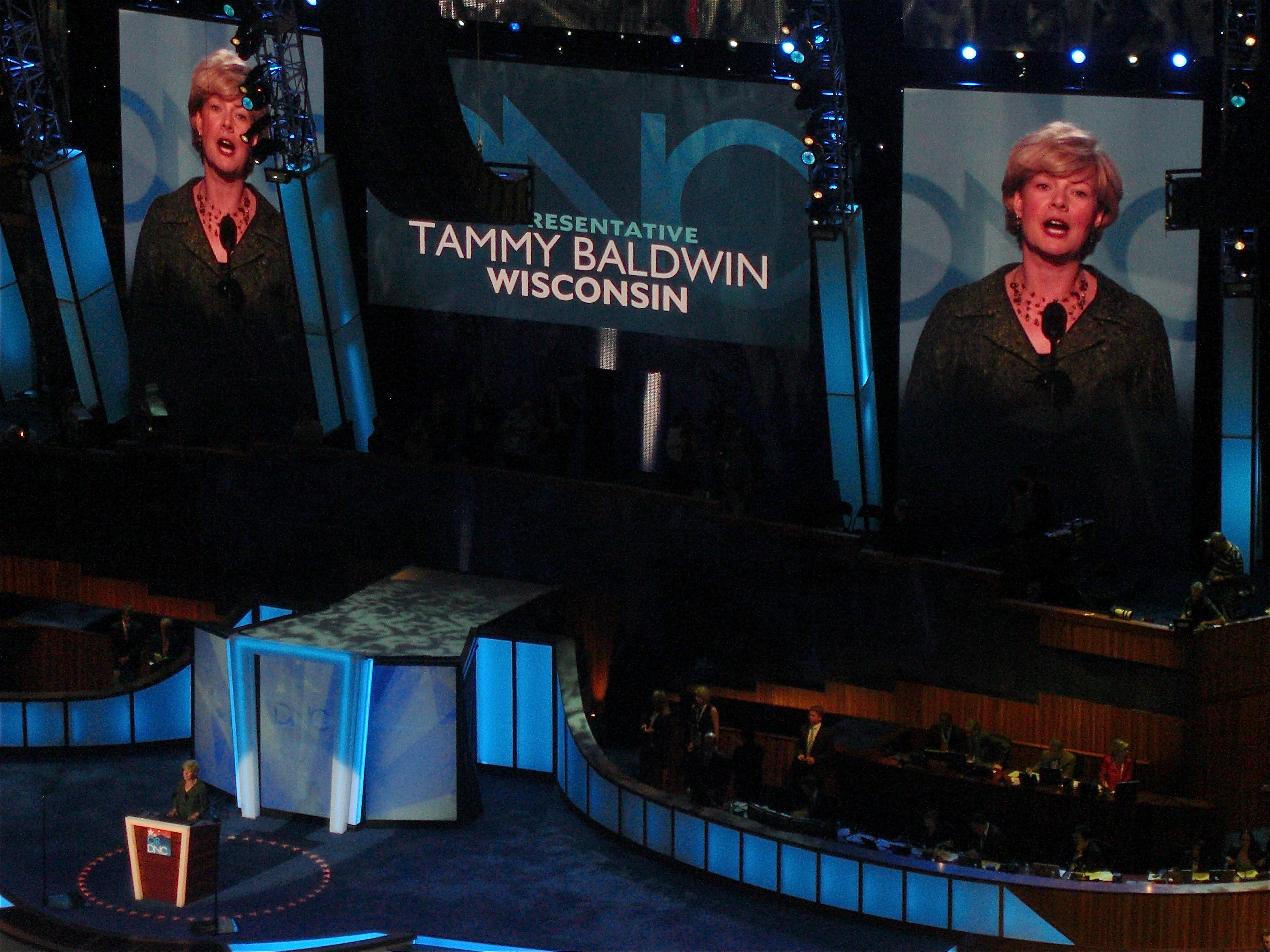 Tammy Baldwin speaks during the second day of the 2008 Democratic National Convention in Denver, Colorado.